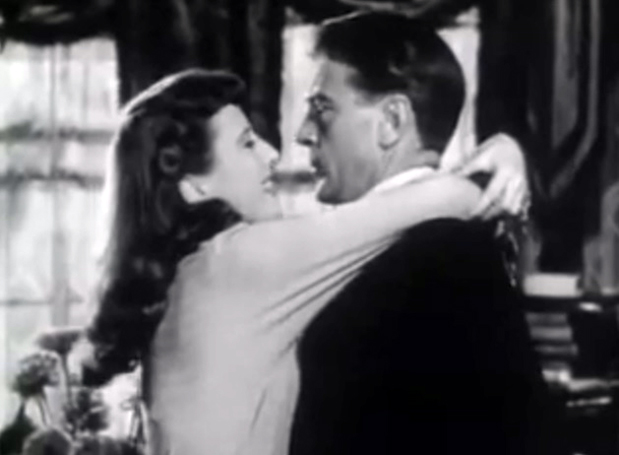 Barbara Stanwyck and Gary Cooper from the film trailer for Ball of Fire, 1941